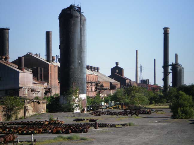 Former Colorado Fuel and Iron steel works, Pueblo, Colorado, USA